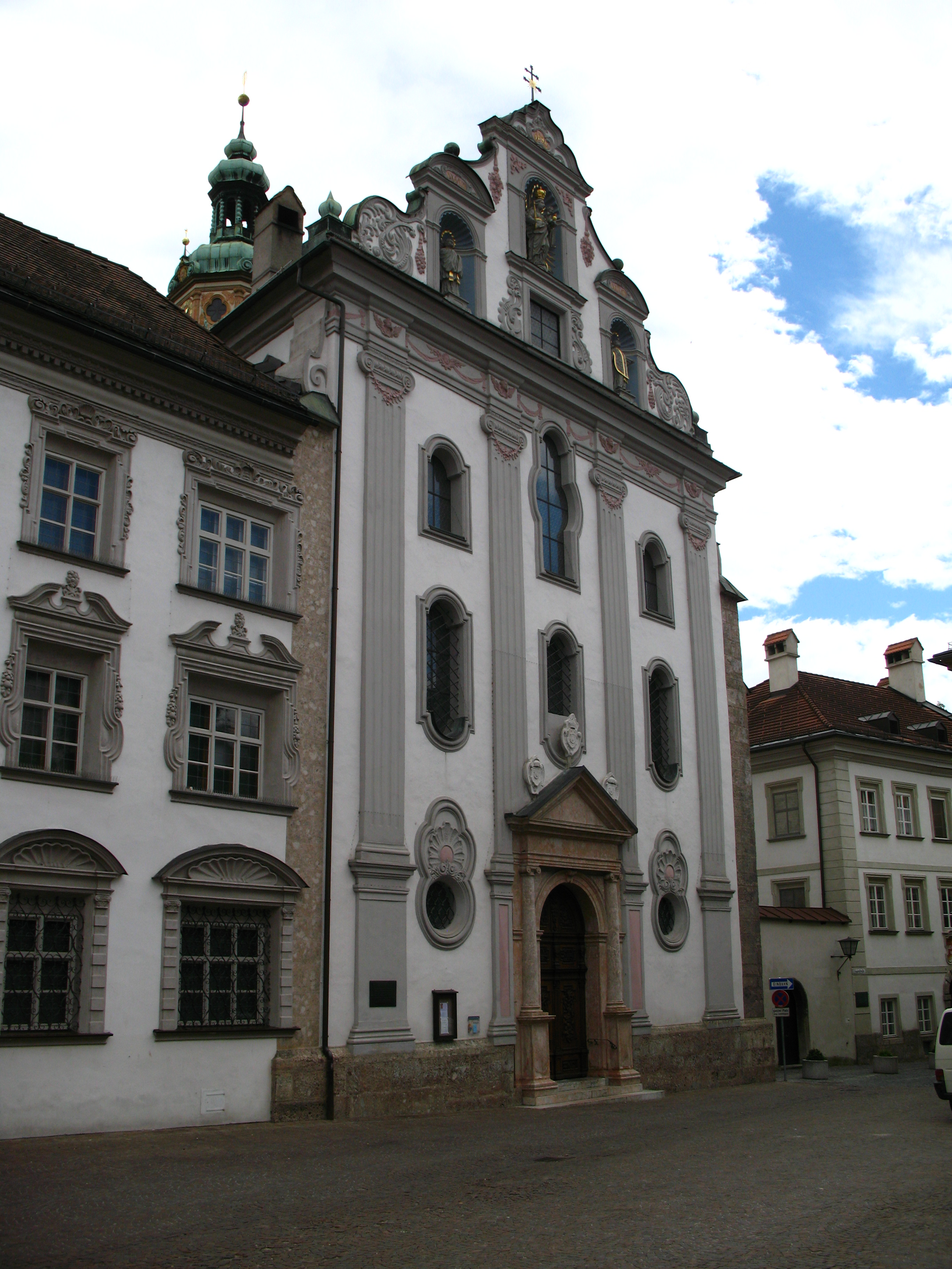 Church of Our Lady, Hall in Tirol, Austria Object location47° 16′ 51.87″ N, 11° 30′ 34.08″ E